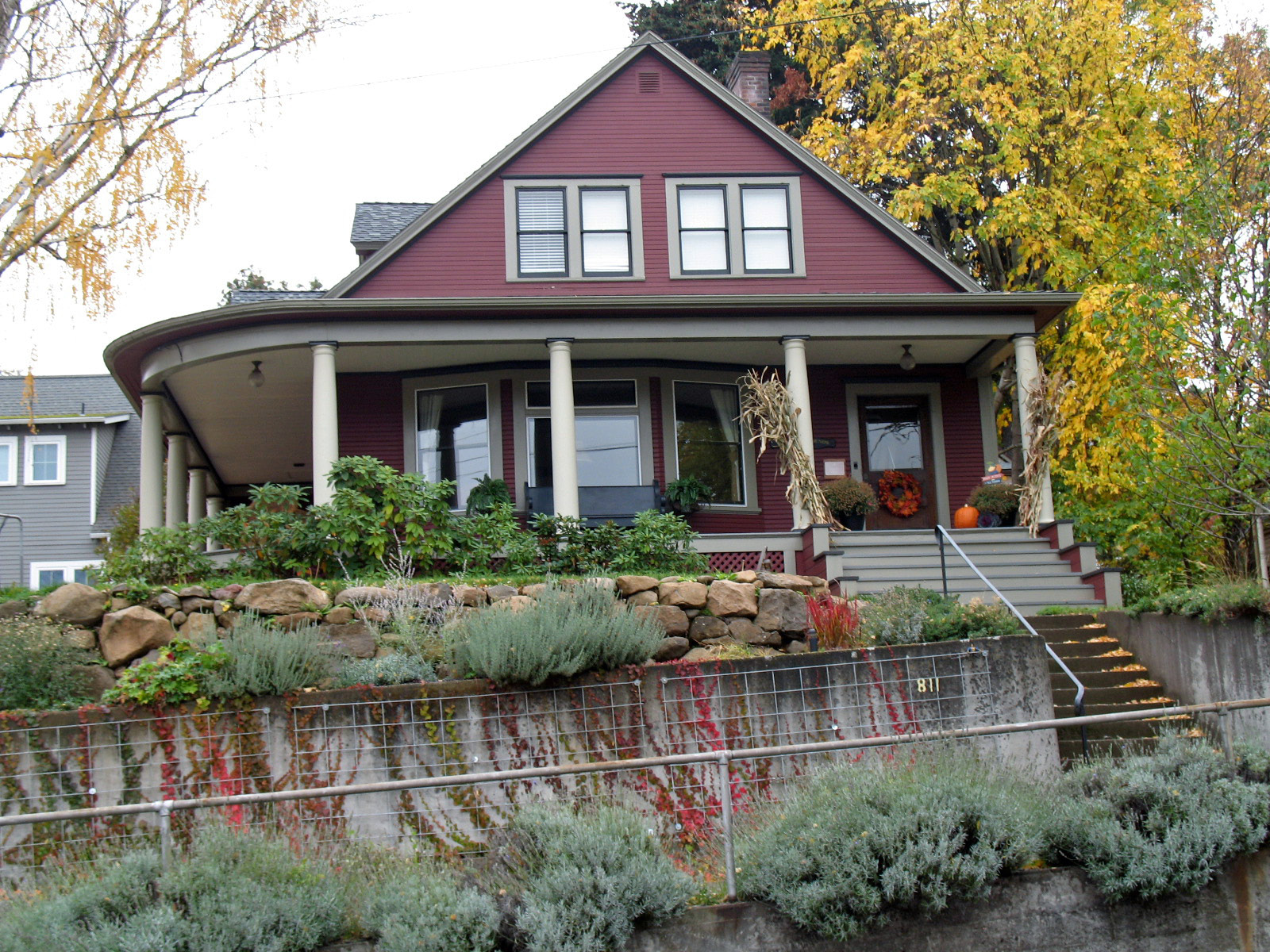 John C Duckwall House and gardens, in Hood River, Oregon — on the National Register of Historic Places listings in Hood River County, Oregon. John C Duckwall House, 811 Oak St, Hood River, OR. Photographed October 28, 2009 from the south side of Oak St. between 8th and 9th St.